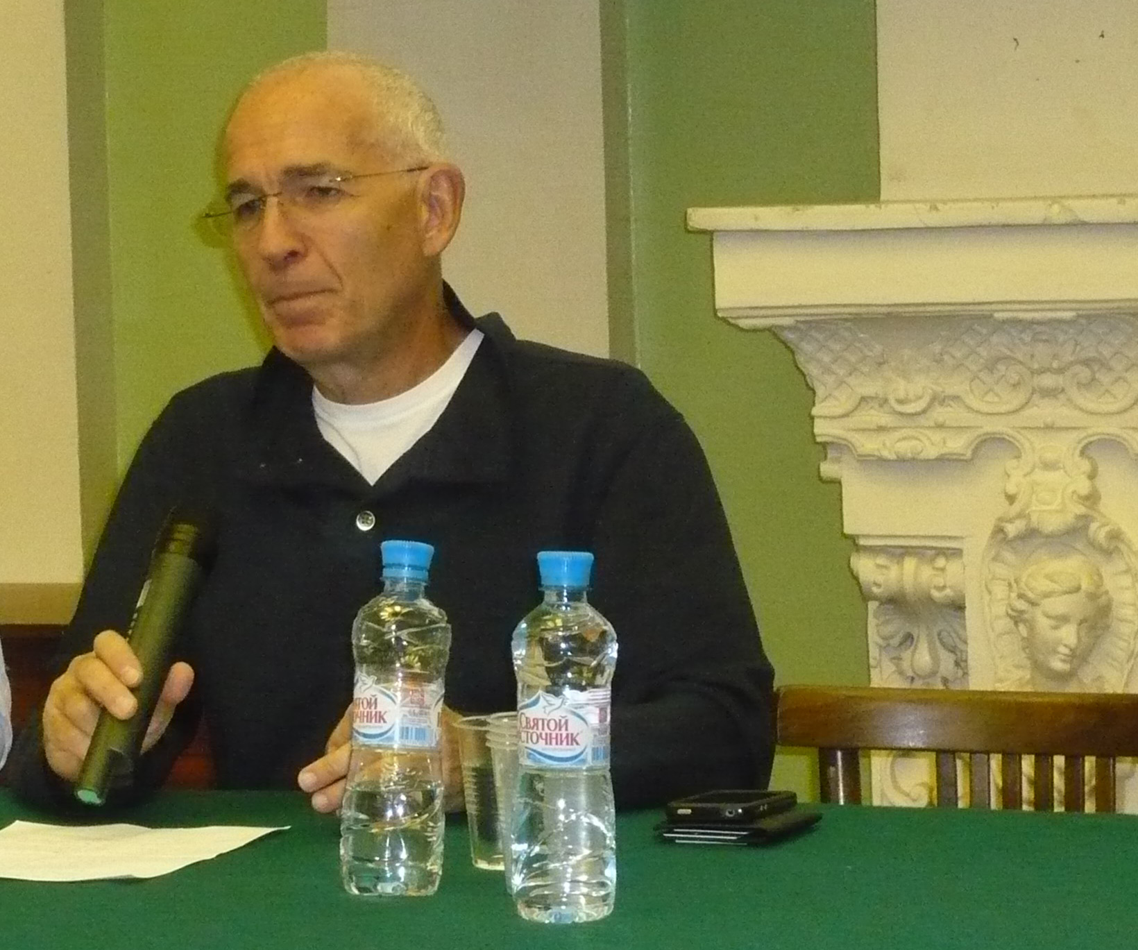 Peter Sichrovsky - the Austrian journalist and writer acts with public lecture in the Ushinsky State Scientific Pedagogical Library (Moscow)